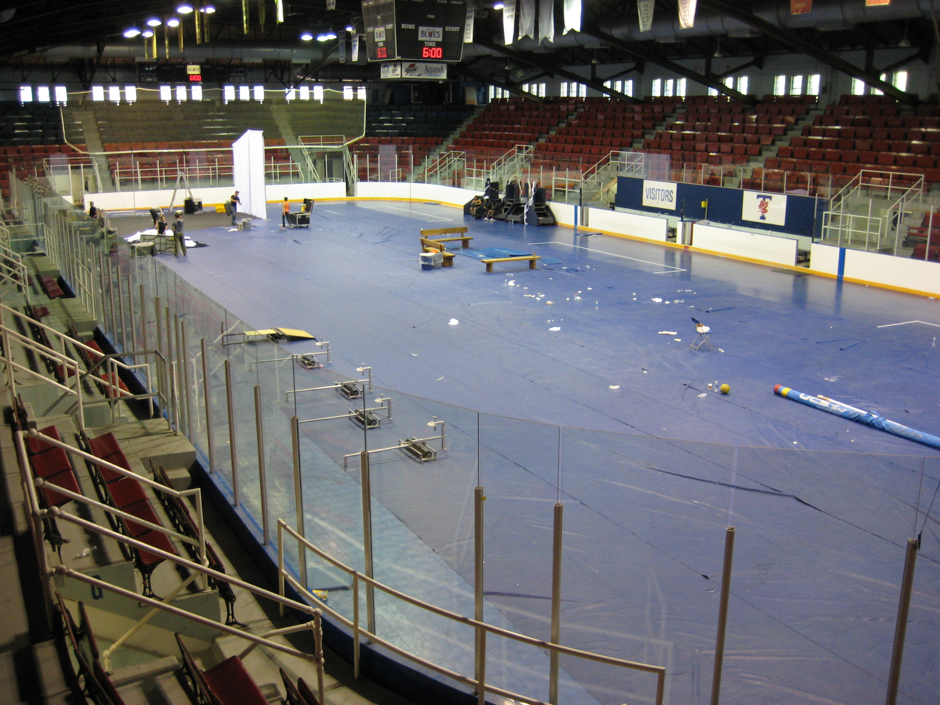 Varsity Arena